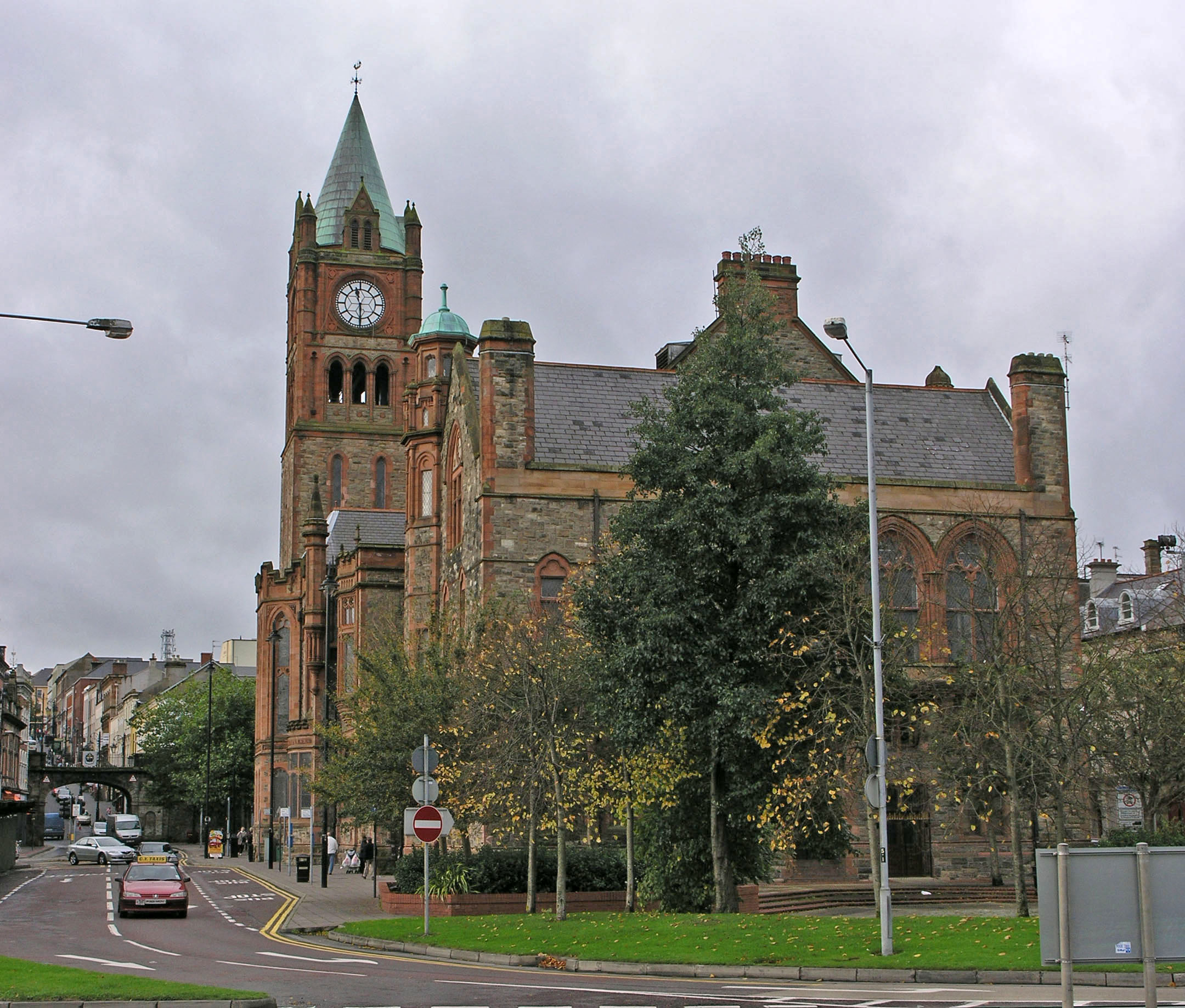 City Guildhall Derry, taken by me SeanMack, Oct 2005.